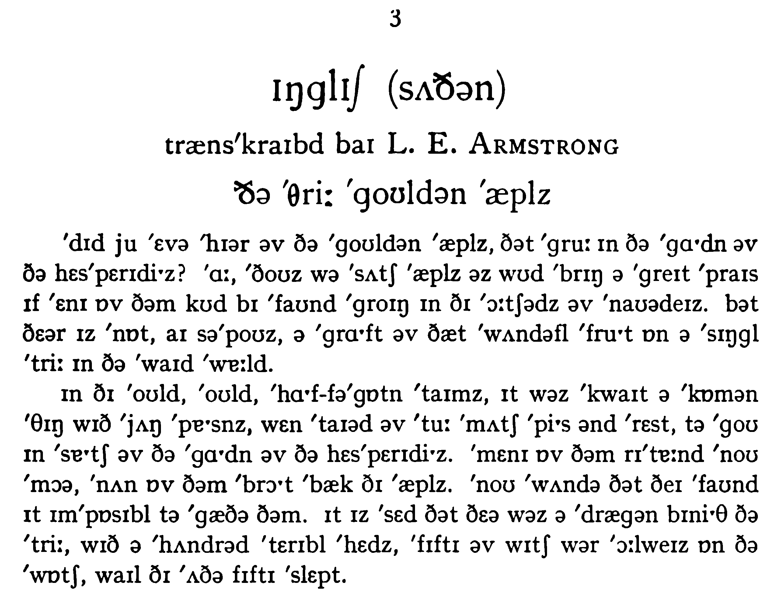 An excerpt from Lilias Armstrong's transcription of (a slight adaptation of) Nathaniel Hawthorne's (1851) "The Three Golden Apples" from A Wonder-Book for Girls and Boys Text reads: English (Southern) Transcribed by L. E. Armstrong The Three Golden Apples Did you ever hear of the golden apples, that grew in the garden of the Hesperides? Ah, those were such apples as would bring a great price if any of them could be found growing in the orchards of nowadays. But there is not, I suppose, a graft of that wonderful fruit on a single tree in the wide world. In the old, old, half-forgotten times, it was quite a common thing with young persons, when tired of too much peace and rest, to go in search of the garden of the Hesperides. Many of them returned no more, none of them brought back the apples. No wonder that they found it impossible to gather them. It is said that there was a dragon beneath the tree, with a hundred terrible heads, fifty of which were always on the watch, while the other fifty slept.